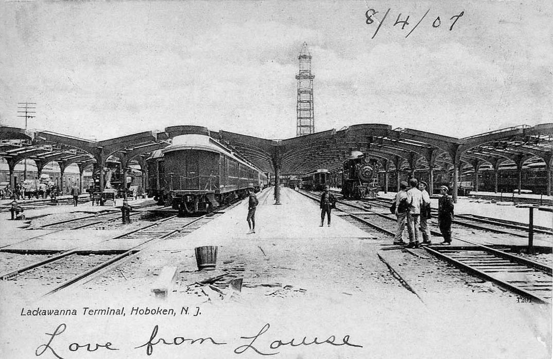 Hoboken, New Jersey Terminal Construction; Delaware, Lackawanna and Western Railroad, 1907